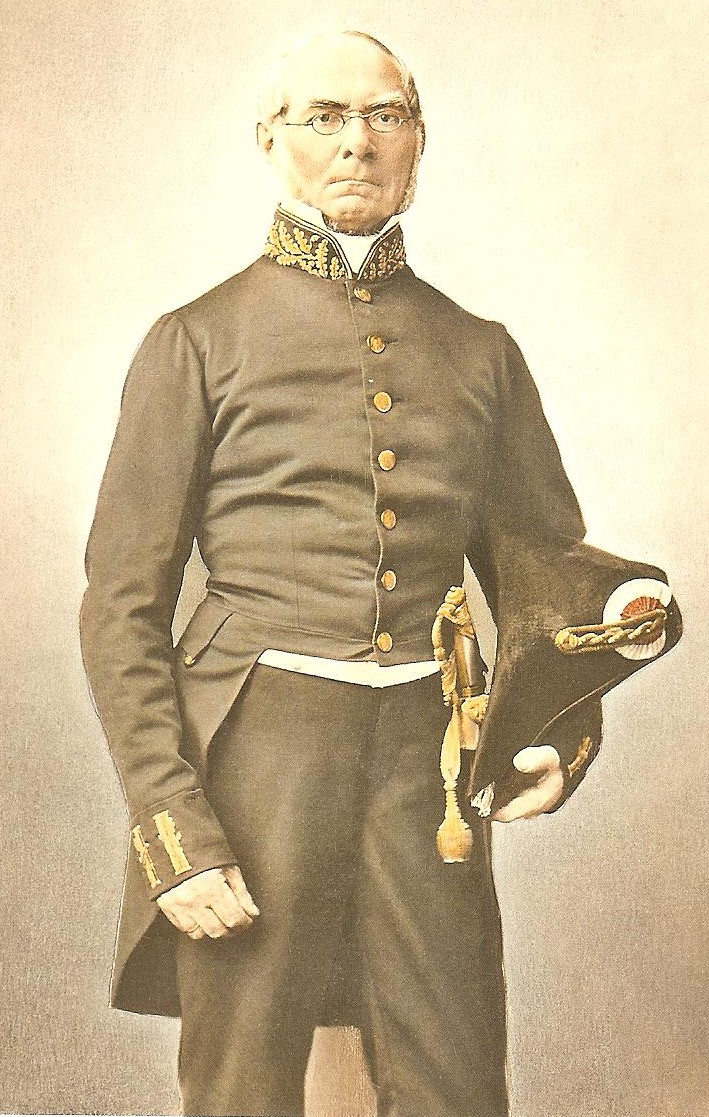 Karl August Bergner: portrait photograph of Peter Christoph Friedrich Grevsmühl/Grevesmühl (14 May 1806 in Lübeck - 15/27 May 1888 Moscow), merchant and Hanseatic Consul in Moscow, in diplomatic uniform, c. 1855